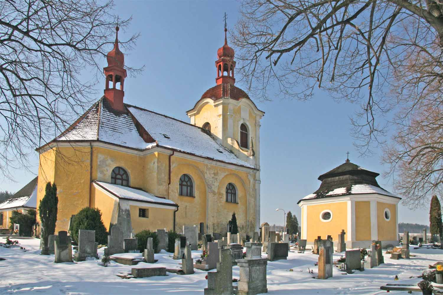 Baroque church of SS Peter and Paul in Zdechovice, Czech Republic.